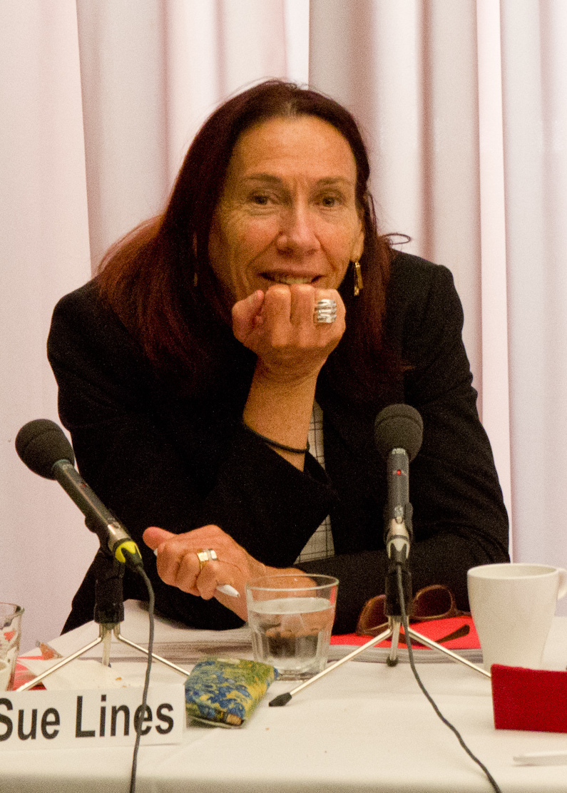 Senate Inquiry into the Roe 8 non compliance of enviromental conditions, Senate committee members